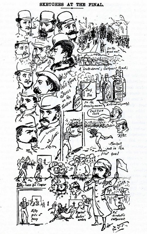 Cartoon illustrating the 1889 Scottish Cup Final between Celtic and Third Lanark on 2nd February 1889. Published in the defunct sports newspaer The Scottish Referee on Monday 4th February 1889.